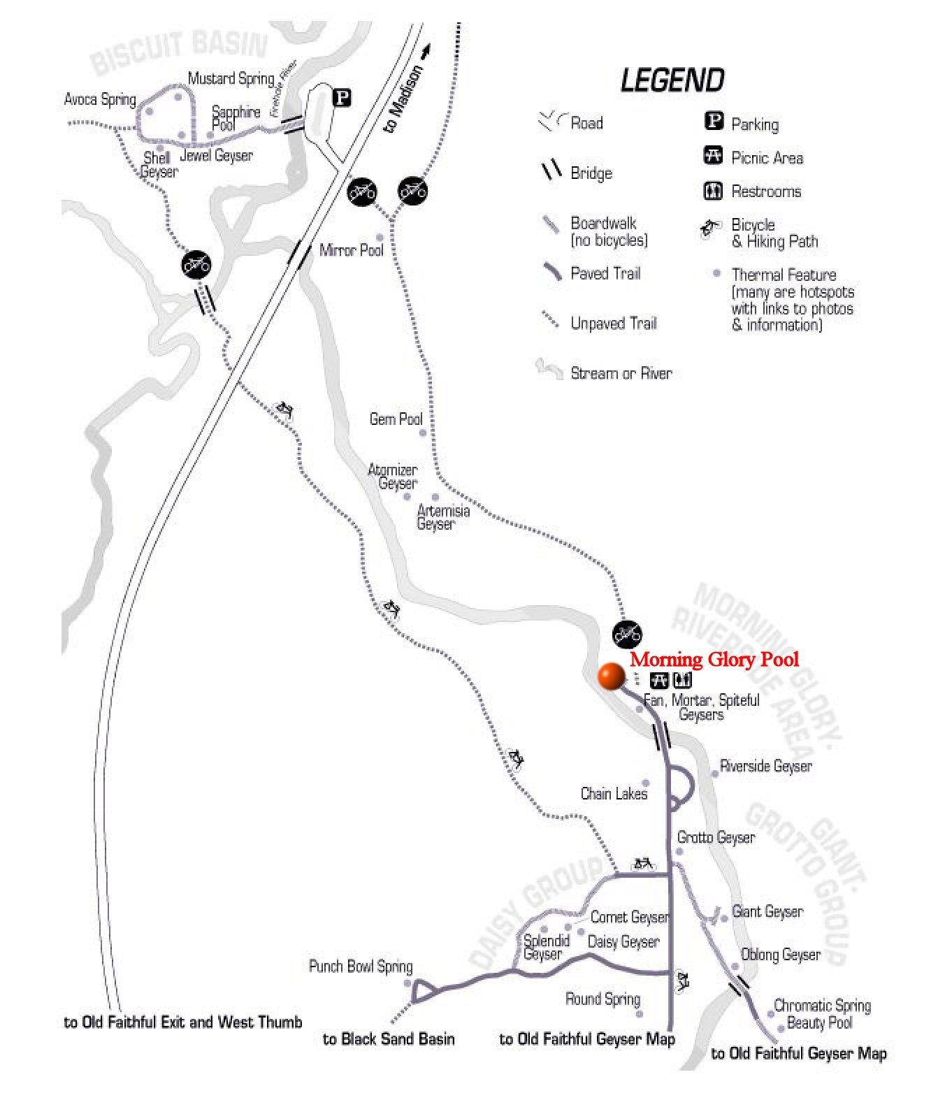 Map of Upper Geyser Basin, Yellowstone National Park, Wyoming with Morning Glory Pool Highlighted